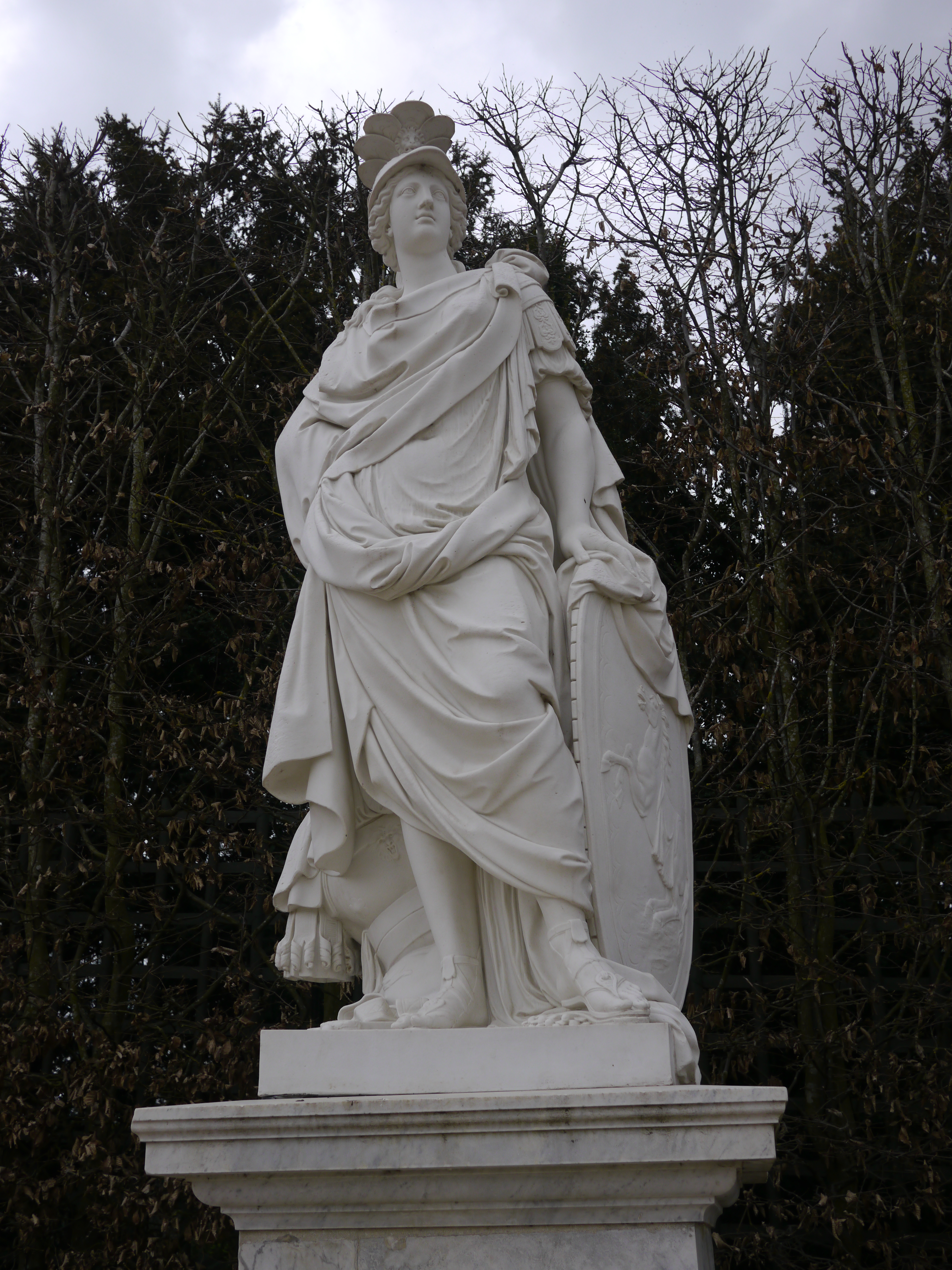 Photograph taken at the Park of the 'Château de Versailles' in France.